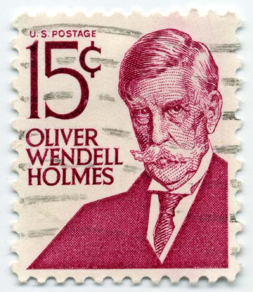 Scan of United States 15c stamp of 1968